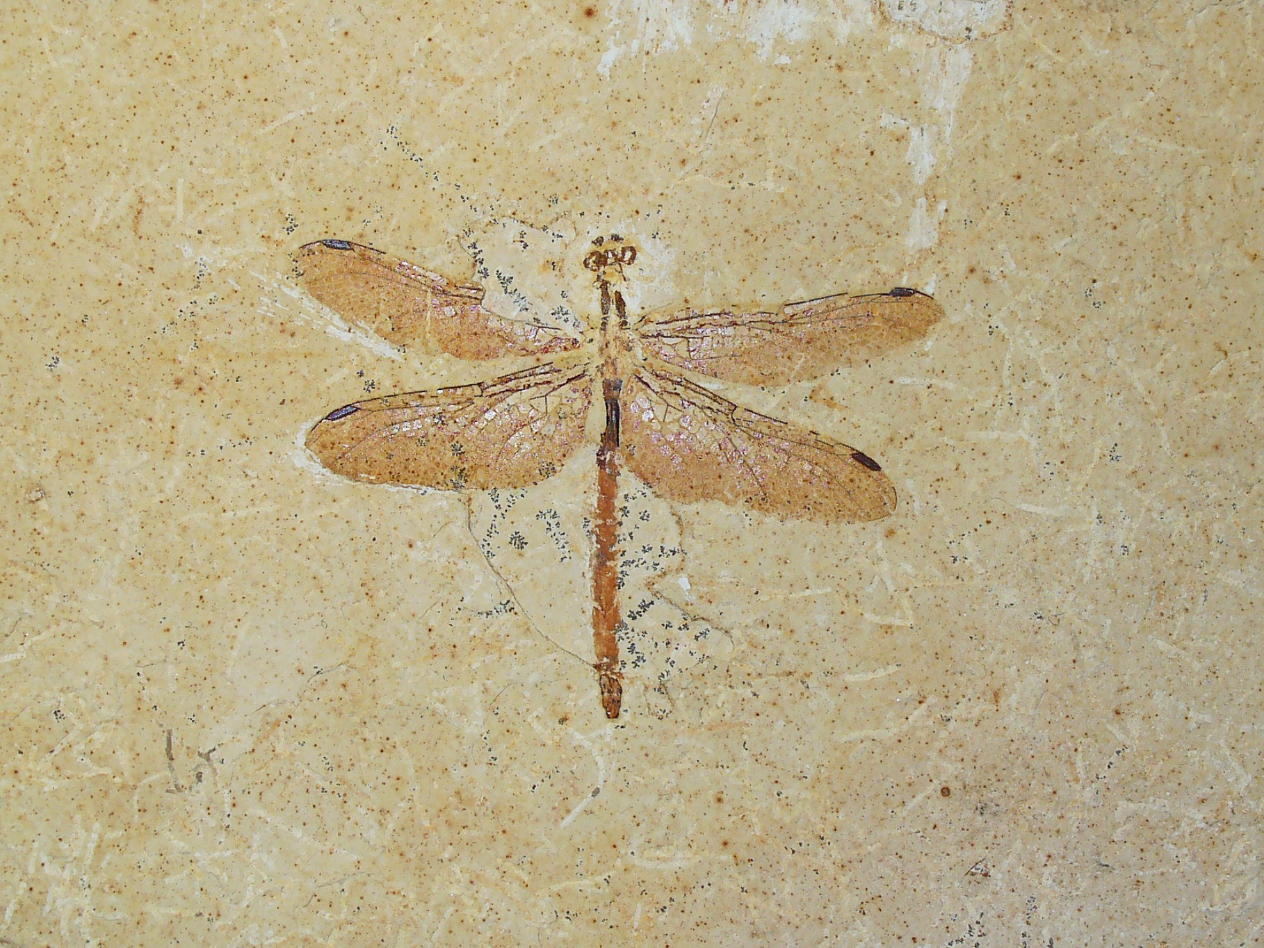 Cordulagomphus spec., Proterogomphidae; Lower Cretaceous, Crato-Formation, Araripe structural basin, Northeast Brazil; Staatliches Museum für Naturkunde Karlsruhe, Deutschland. The pictured specimen is outstanding by its well preserved pigment spots on the wings.